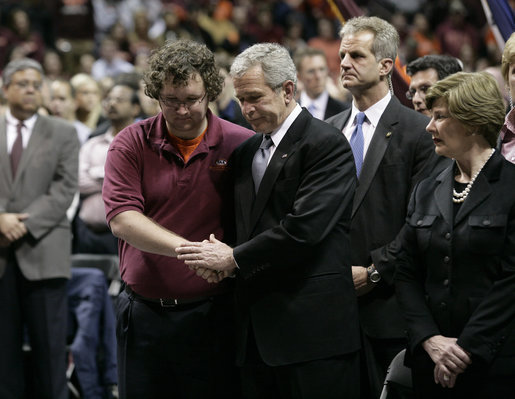 President George W. Bush comforts James Tyger, outgoing Student Government president during the Convocation on the campus of Virginia Tech in Blacksburg, Va. The President and Mrs. Laura Bush attended the service honoring students, faculty and staff who died or were injured in Monday's tragic shooting.